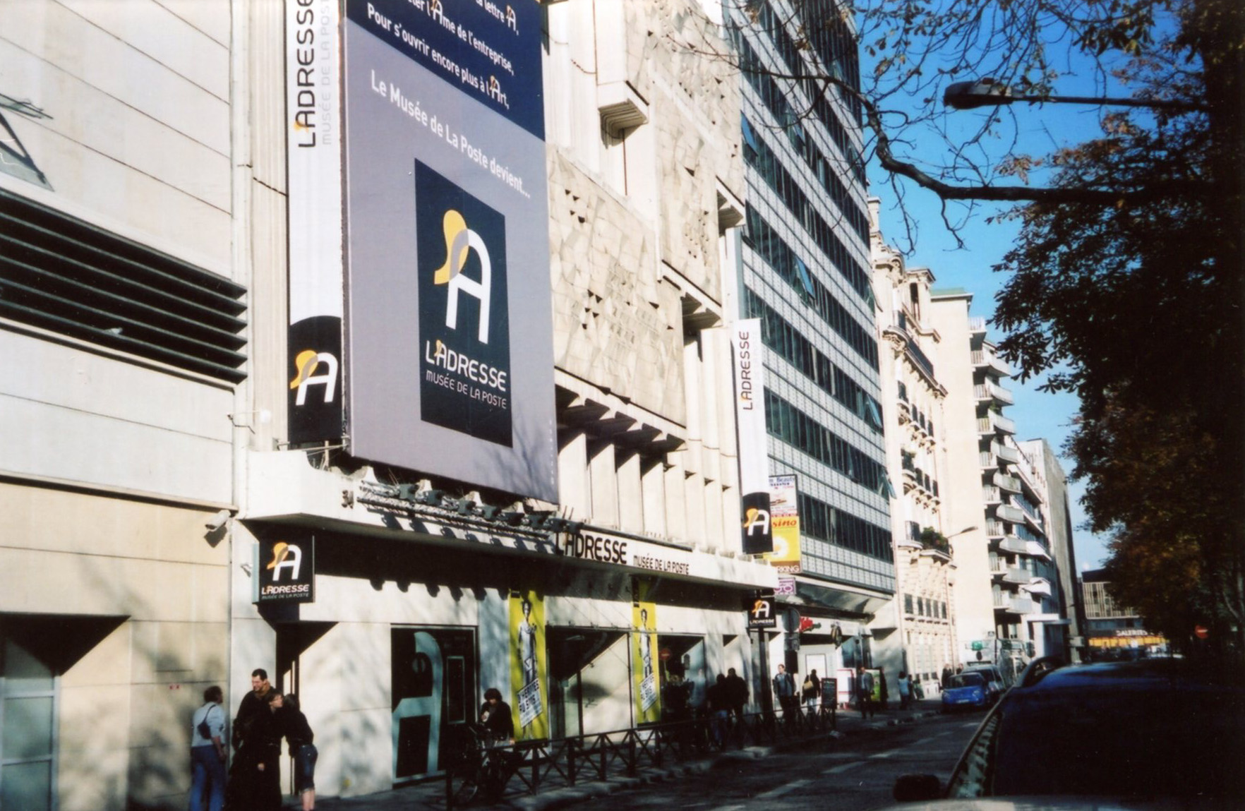 Musée de La Poste in Paris.